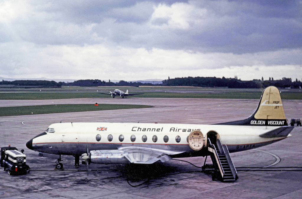 Vickers Viscount 702 G-APTA of Channel Airways at Manchester Airport in 1965